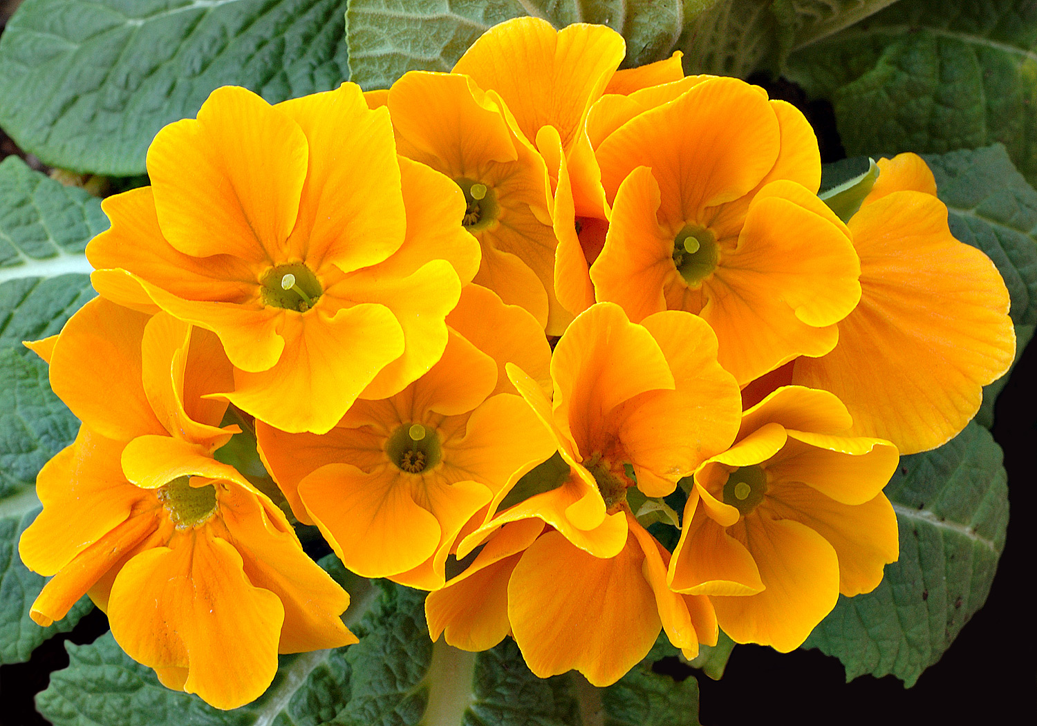 This image shows a few primulas of the species Primula hortensis.